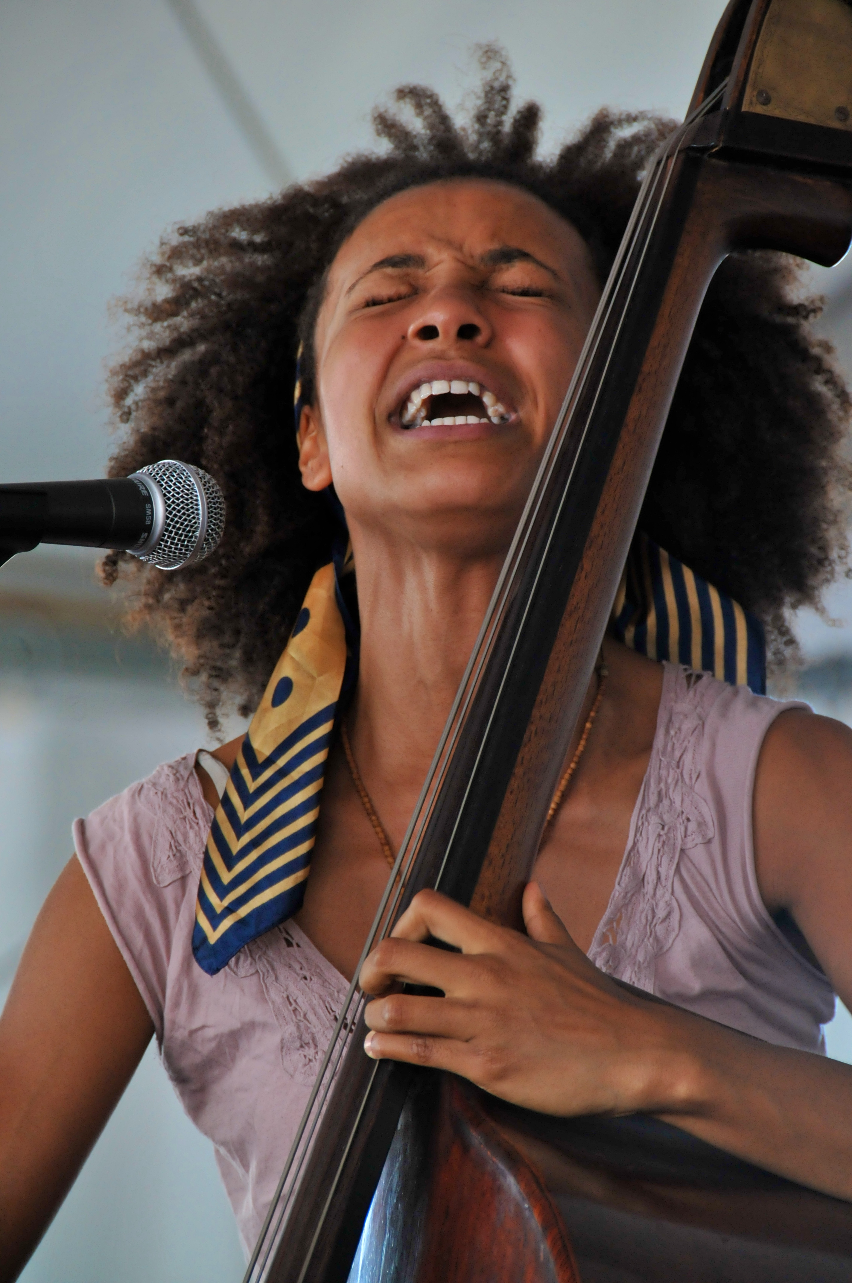 Esperanza Spalding performing at the Newport Jazz Festival 2008 This might have been my favorite Newport Jazz Festival performance ever. esperanza spalding is amazingly talented.. she sings, she plays upright bass, she dances.. and no, it's not just the "girl bass player" thing (but i'm sure that factors into it). She just plays her ass off. and she seems to do it with this limitless supply of energy and delight. Yet another album I picked up when I got home. it was a challenge for me to choose one photo which best represented her, because every one was full of so much energy and emotion.. so i ended up picking a few of my favorites from the "not totally blurry" category